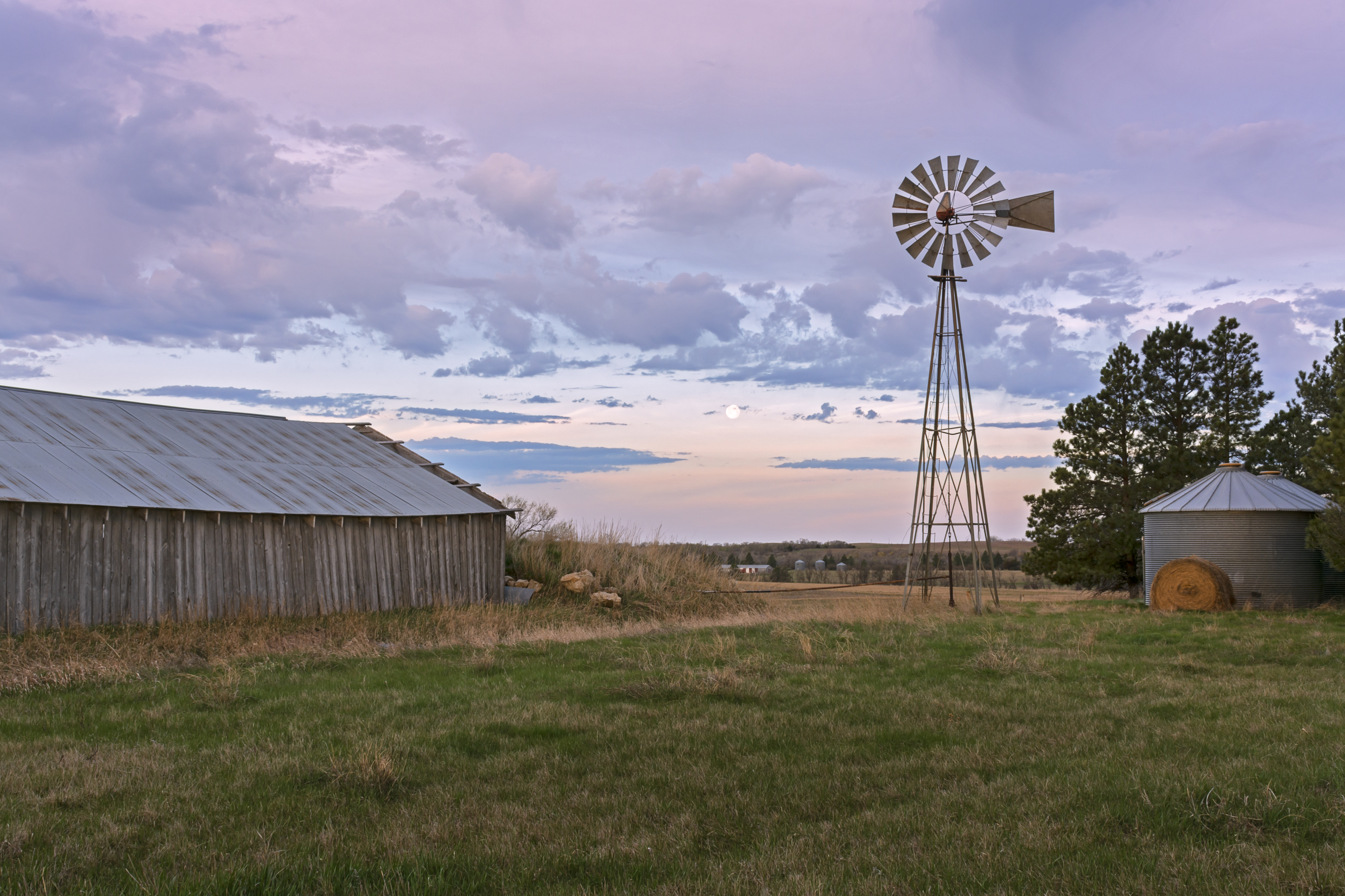 Rural buildings and windmill on a property near the unincorporated village of Meadow in Meadow Township, Perkins County, South Dakota